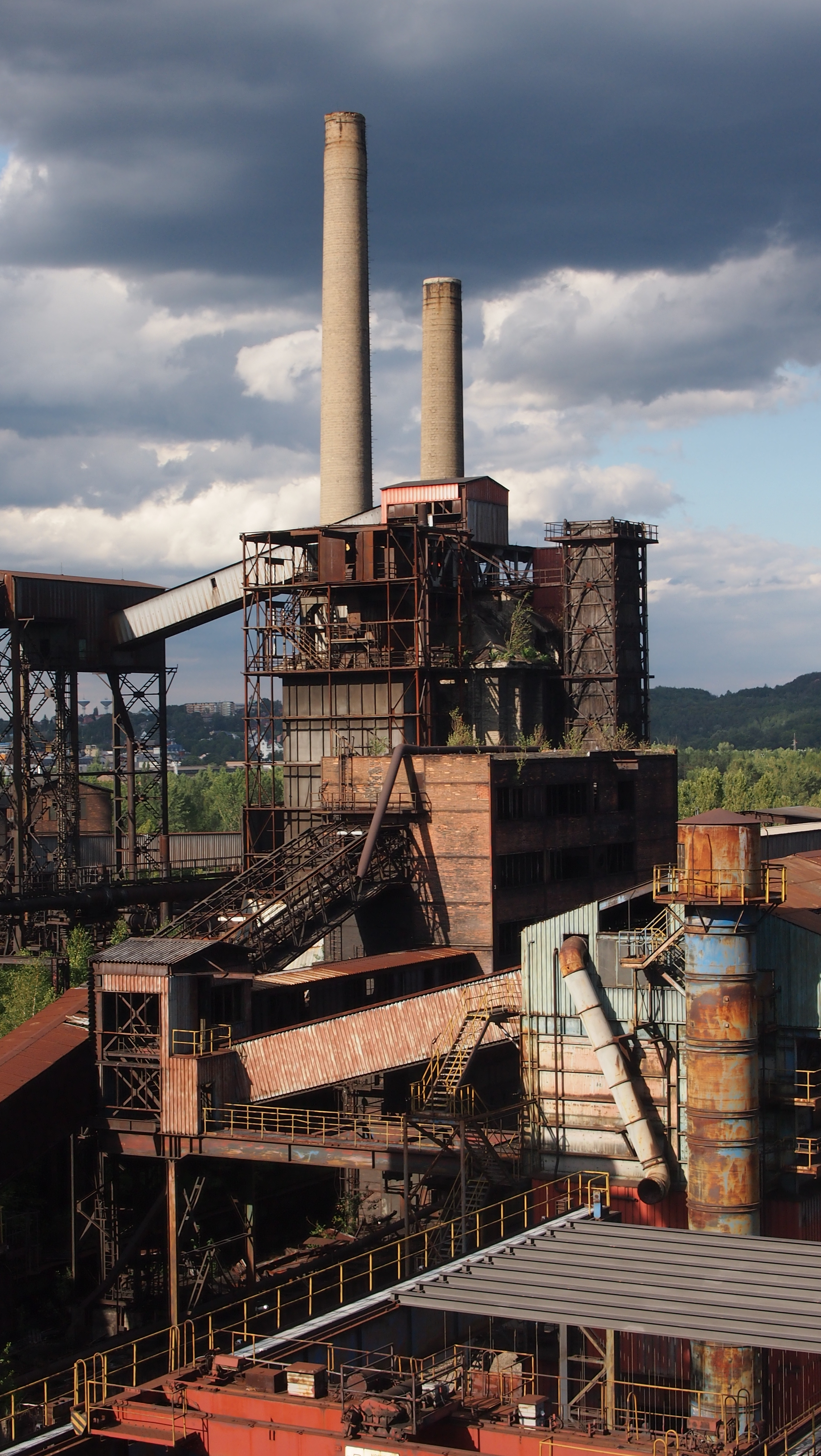 Dolní oblast Vítkovice - former industrial area, now protected monument